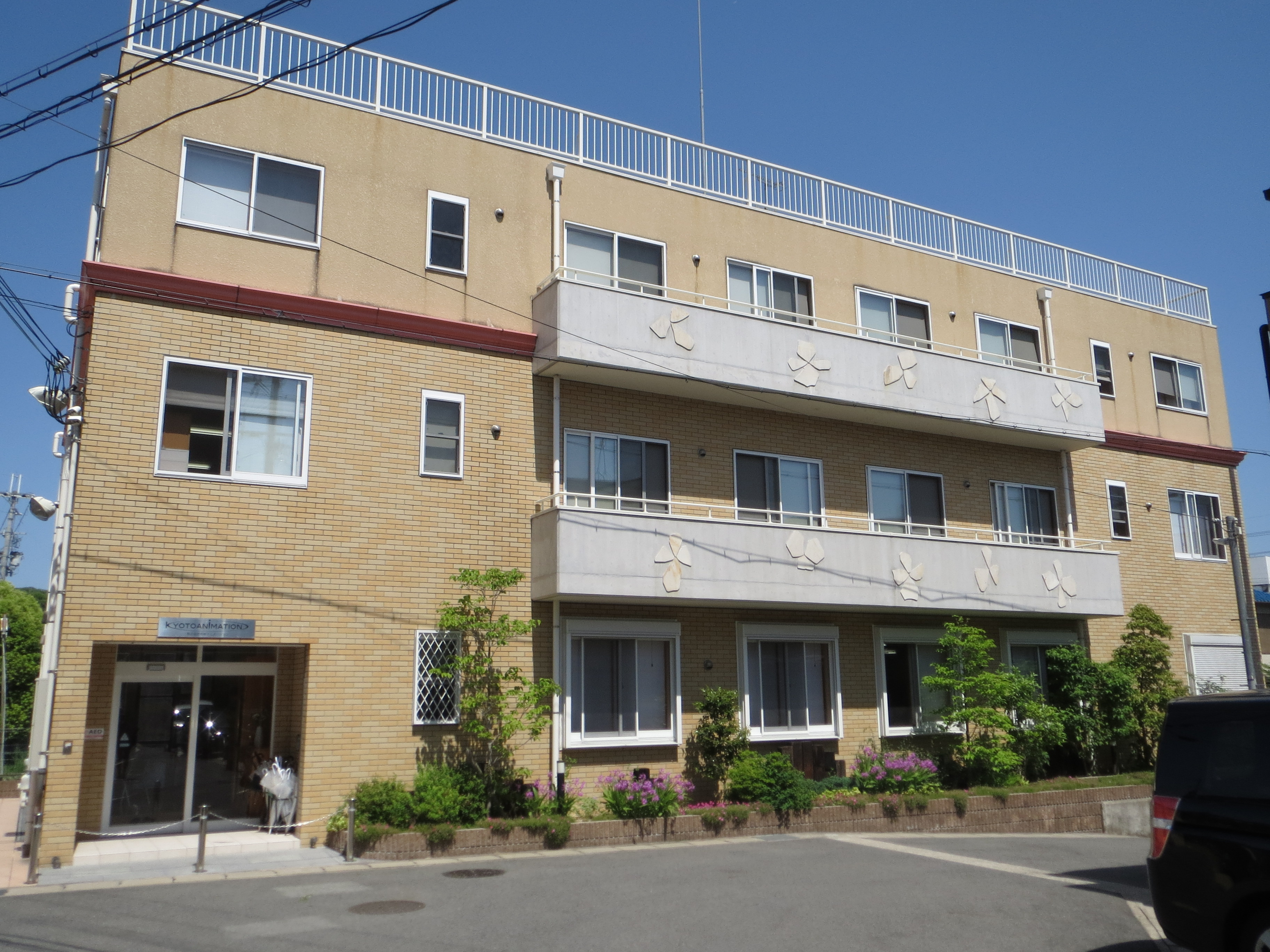 Kyoto Animation Studio 1 Building